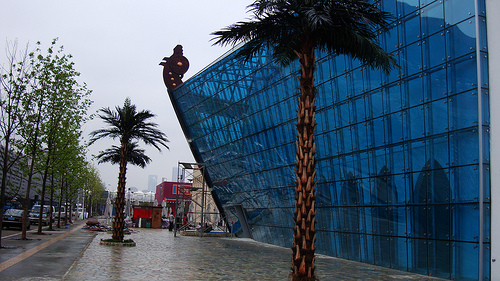 the Sudan pavilion of Shanghai expo2010.